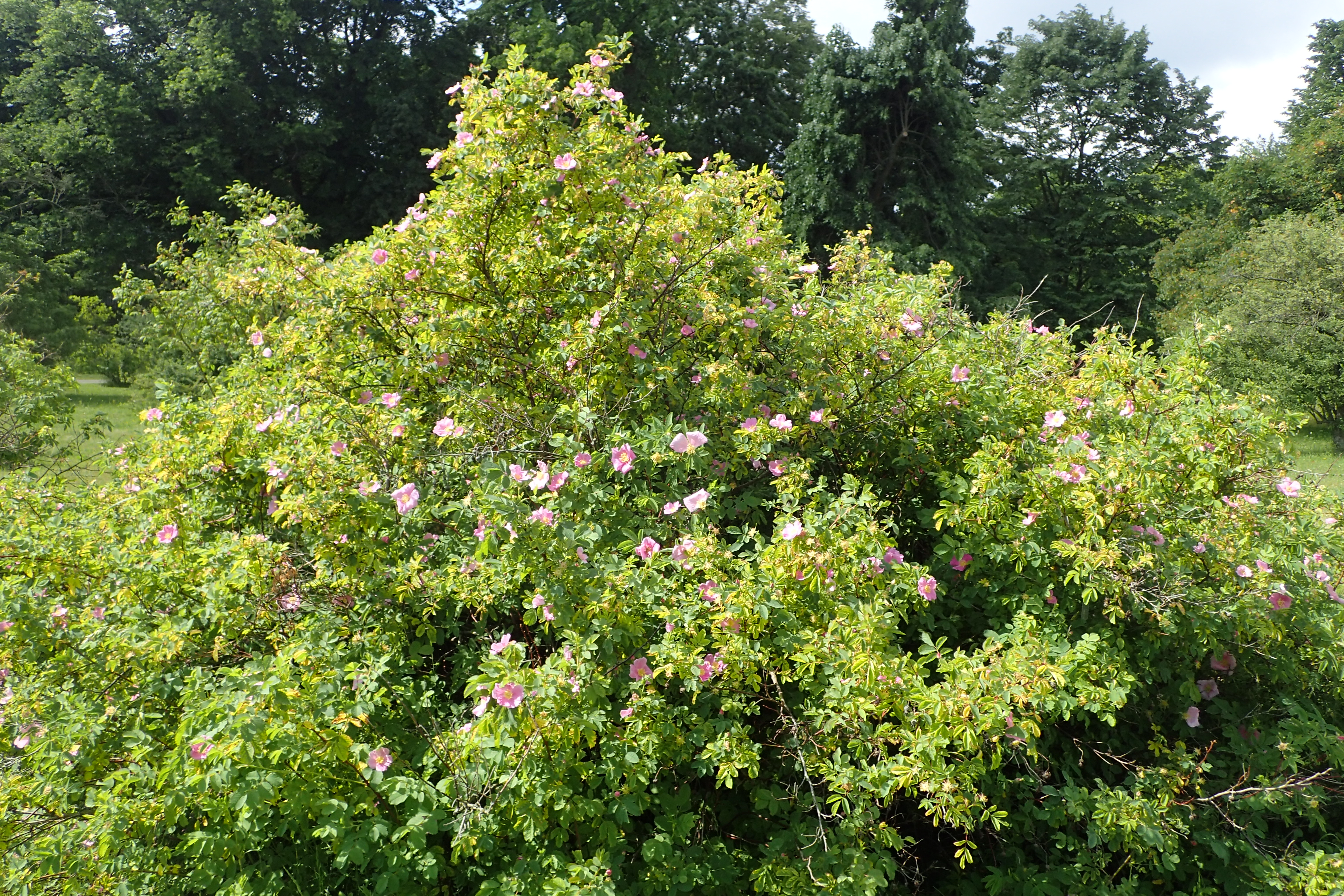 Rosa blanda in the Botanischer Garten, Berlin-Dahlem